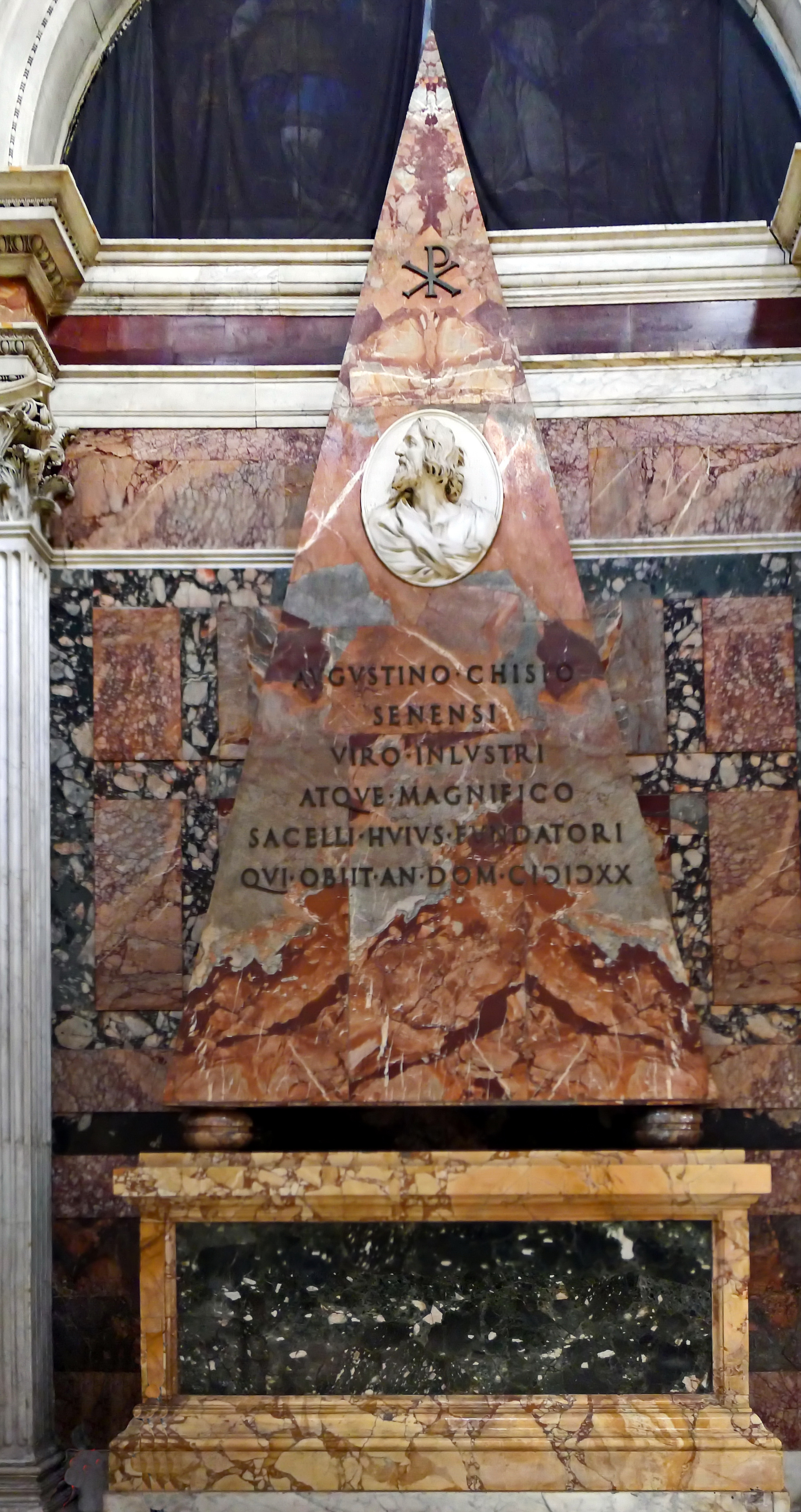 Santa Maria del Popolo Tomb of Agostino Chigi